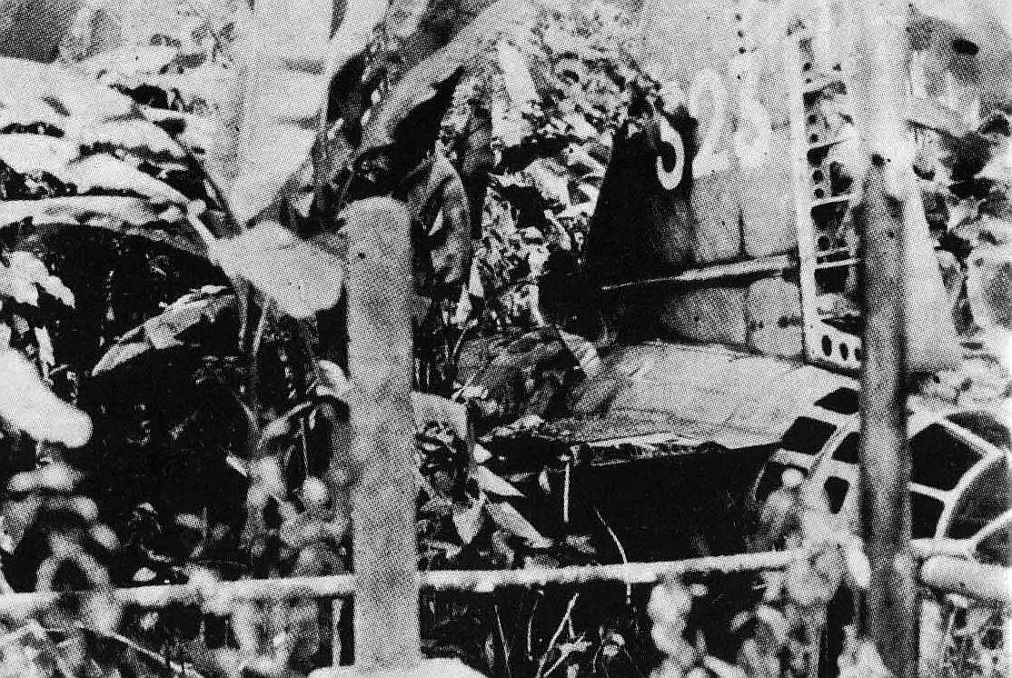 The wreck of the Mitsubishi G4M1 Model 11 bomber which was shot down over Bougainville in April, 1943, killing Imperial Japanese Navy Admiral Isoroku Yamamoto.